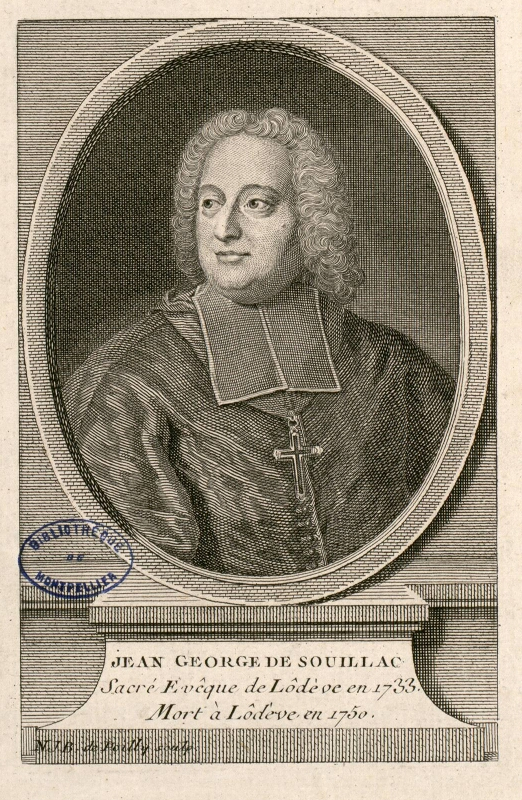 Jean-Georges de Souillac, Bishop of Lodève in 1733, died in Lodève in 1750